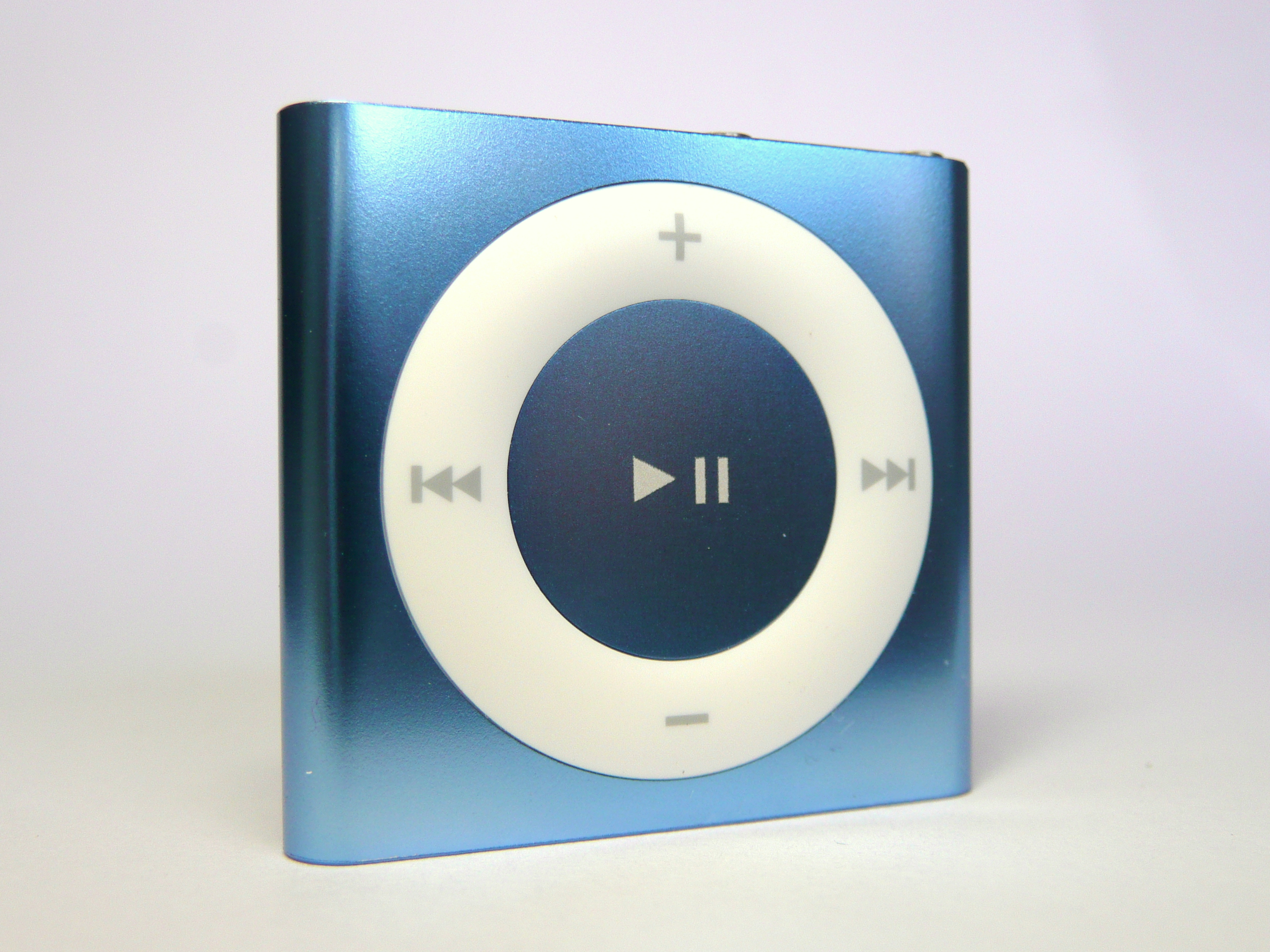 front right of blue 4th generation iPod shuffle